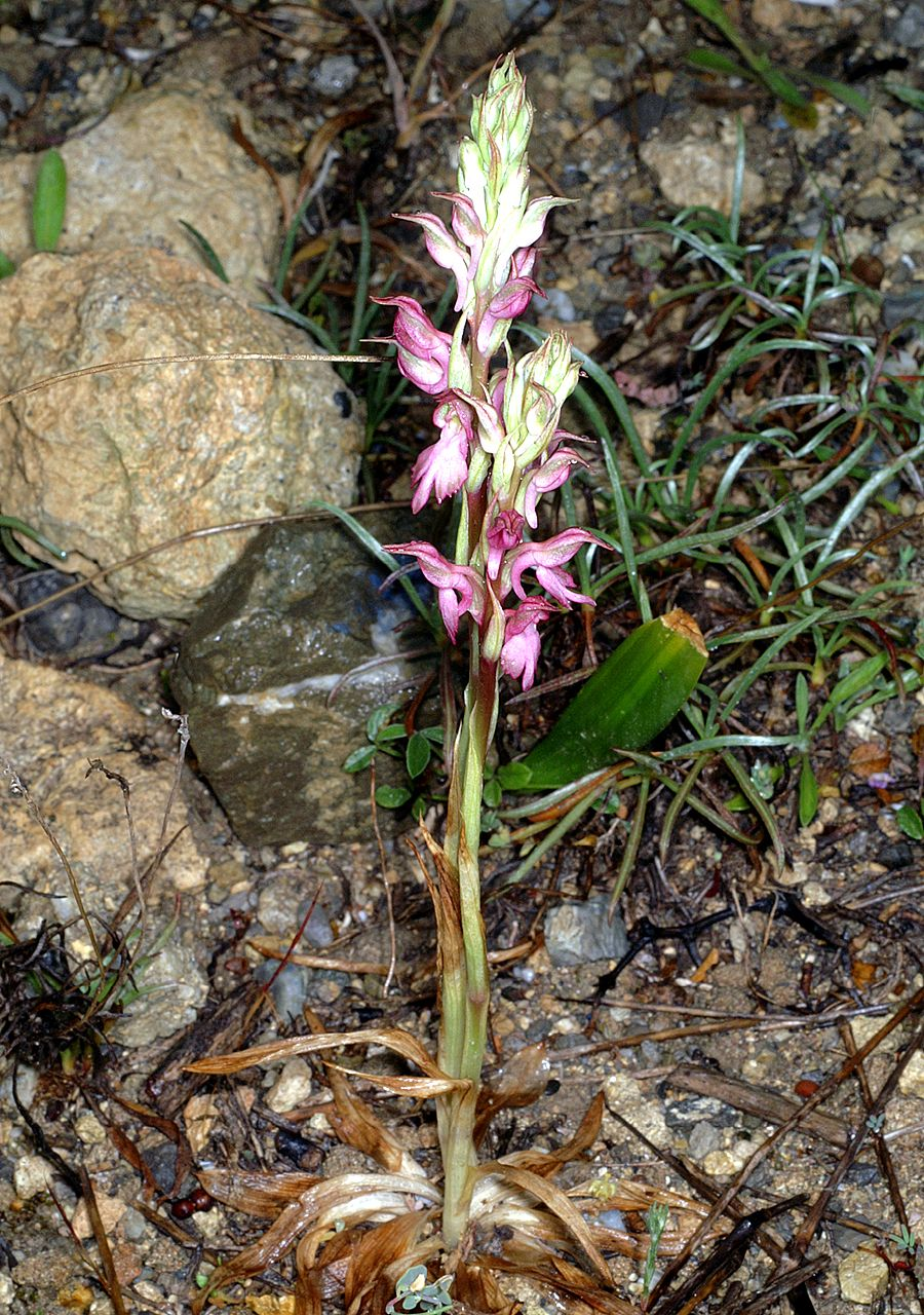 Orchis sancta